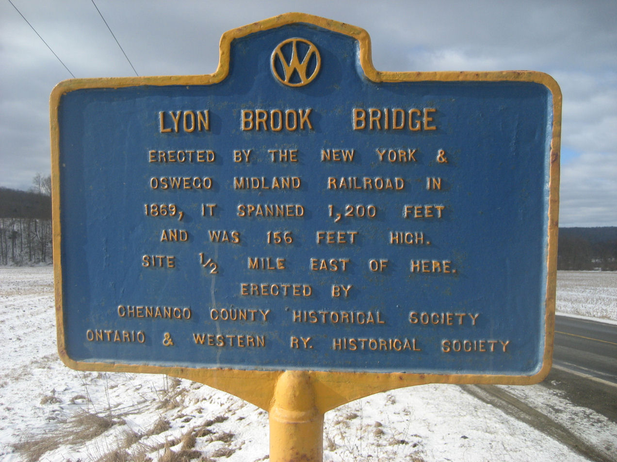 Historic marker of Lyon Brook Bridge, Norwich, NY. Built in 1869, spanned 1,200 feet and 156 feet high.